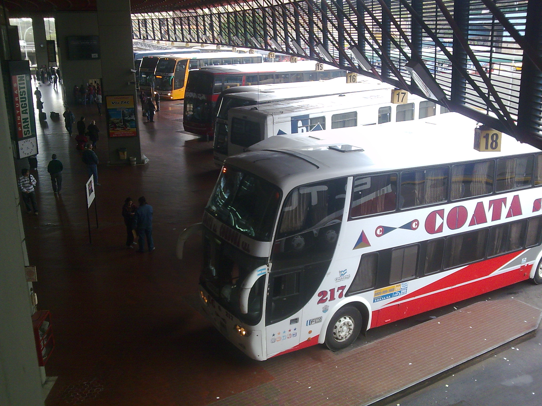 Bus station of Cordoba, Argentina.